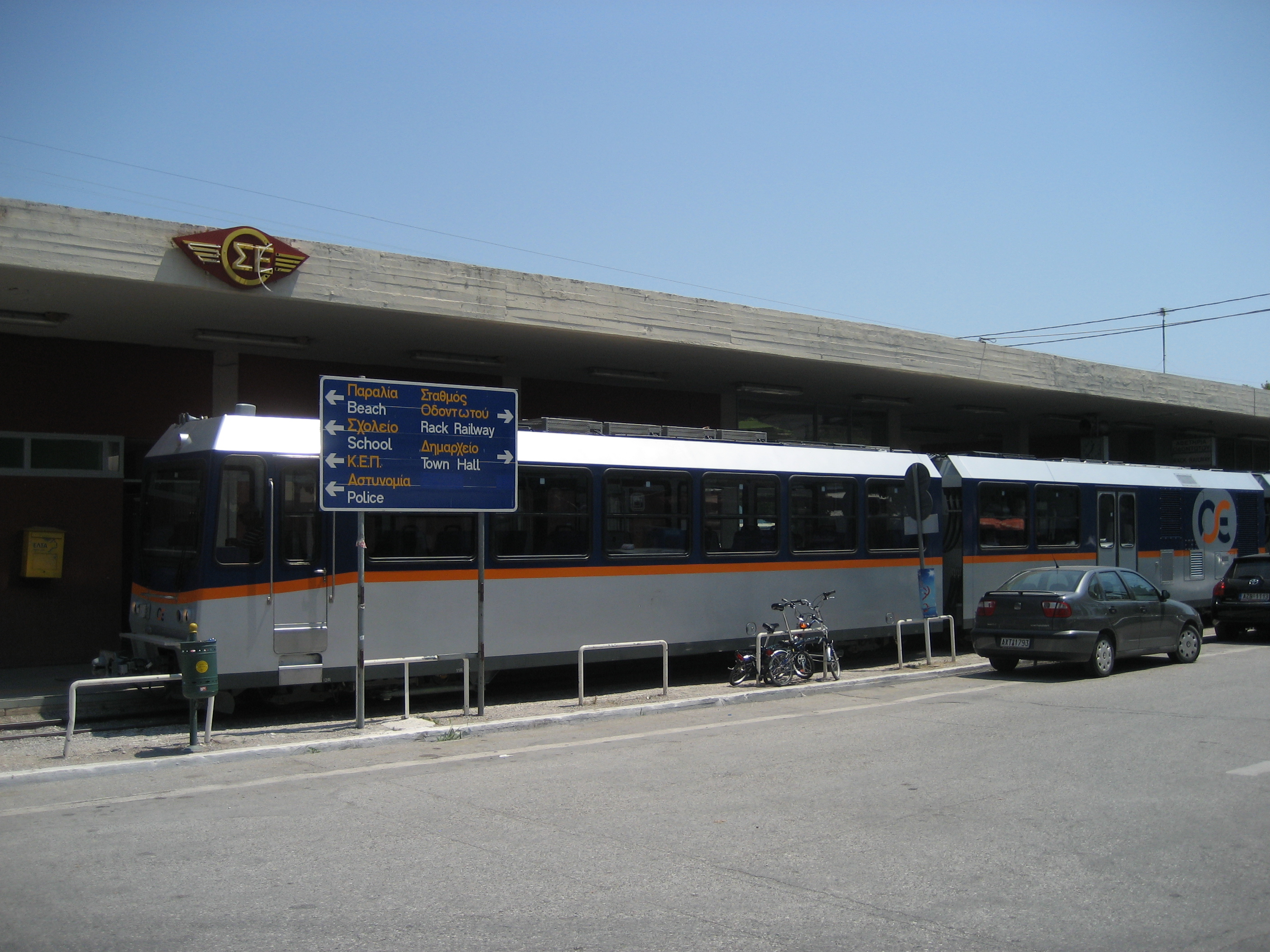 Diakofto-Kalavrita railway, Greece